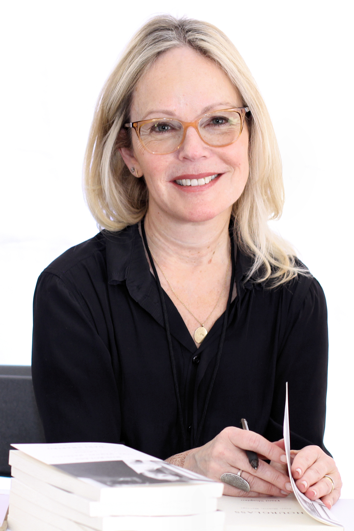 Author Dani Shapiro at the 2018 Texas Book Festival in Austin, Texas, United States.